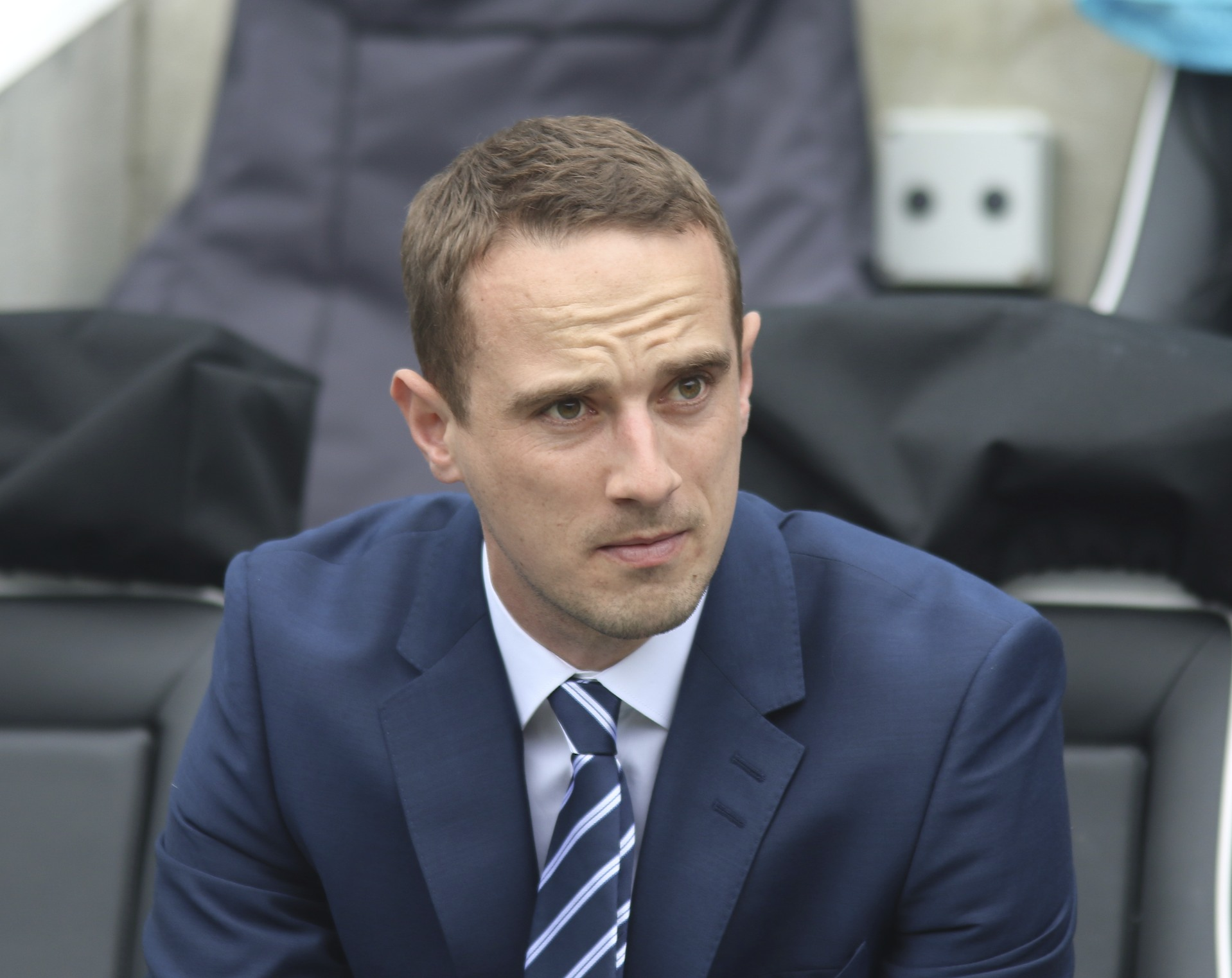 England Women's Football team coach, Mark Sampson at England Ladies v Montenegro 5 4 2014